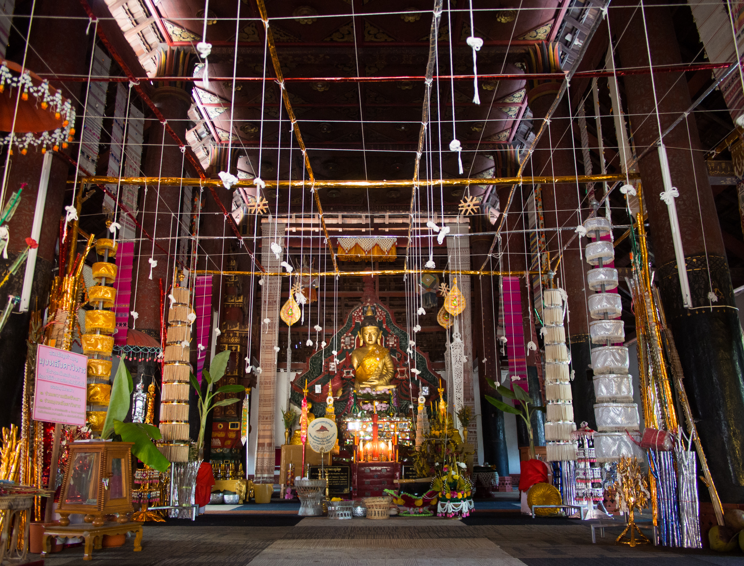 Wat Nong Daeng in Chiang Klang, Nan Province: interior